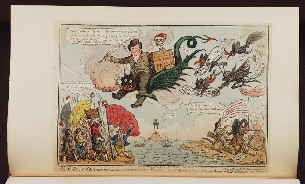 British political cartoon; Satire on Cobbett's retrieval of the bones of Paine from America. Napoleon watches from St. Helena as Britain erupts in revolution.; Initialled at lower left, "I.R.C. fecit."